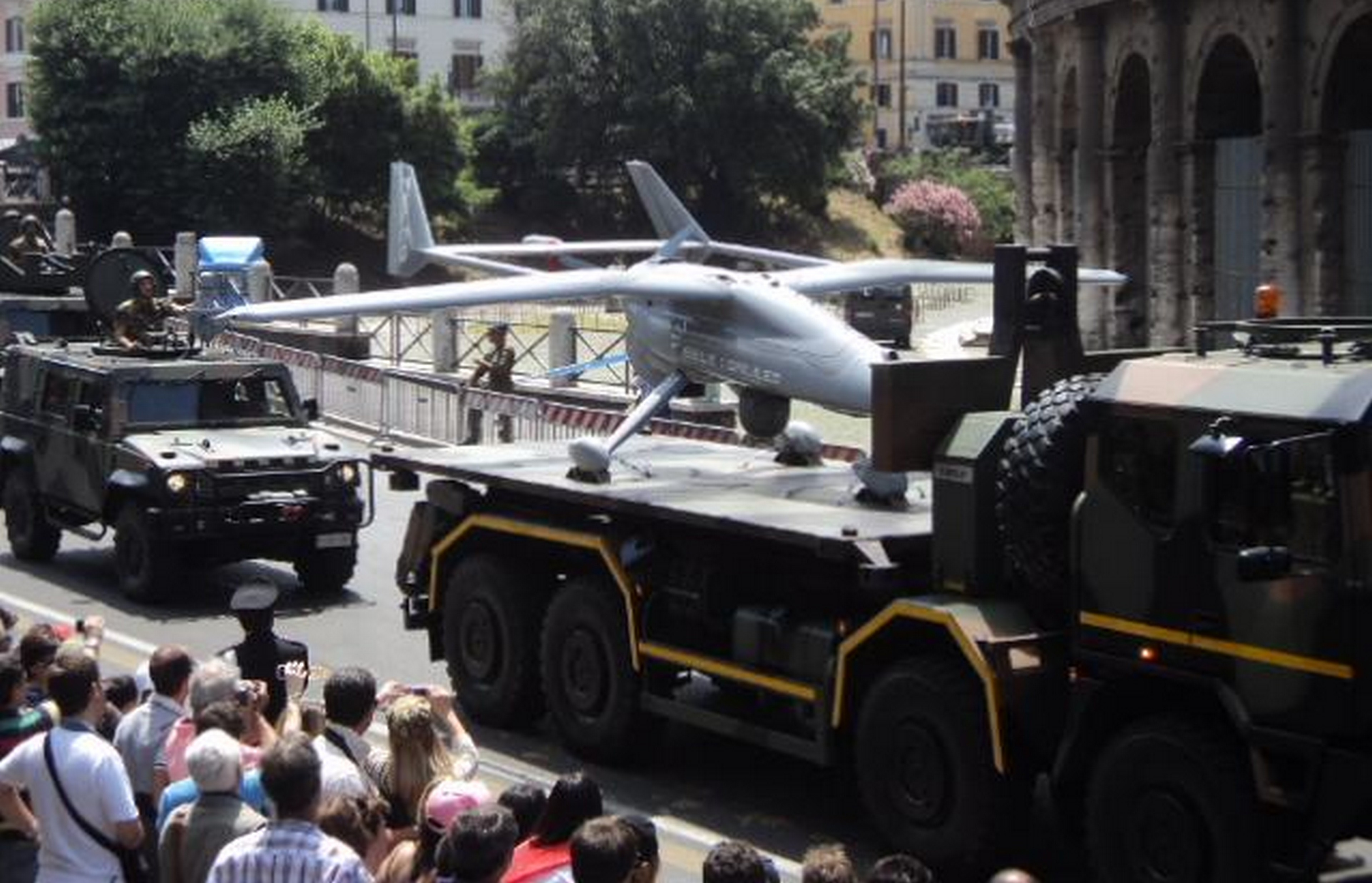 Army parade of Italy 2011